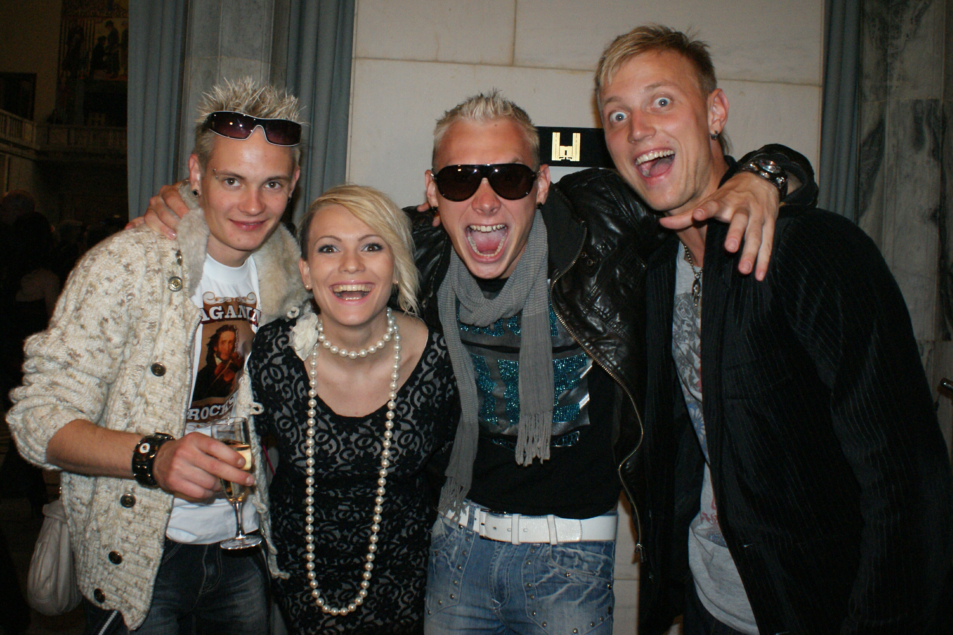 Sun Stroke Project & Olia Tira at the Eurovision 2010 Opening Party in Oslo